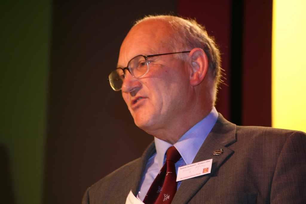 Stuart Agnew MEP